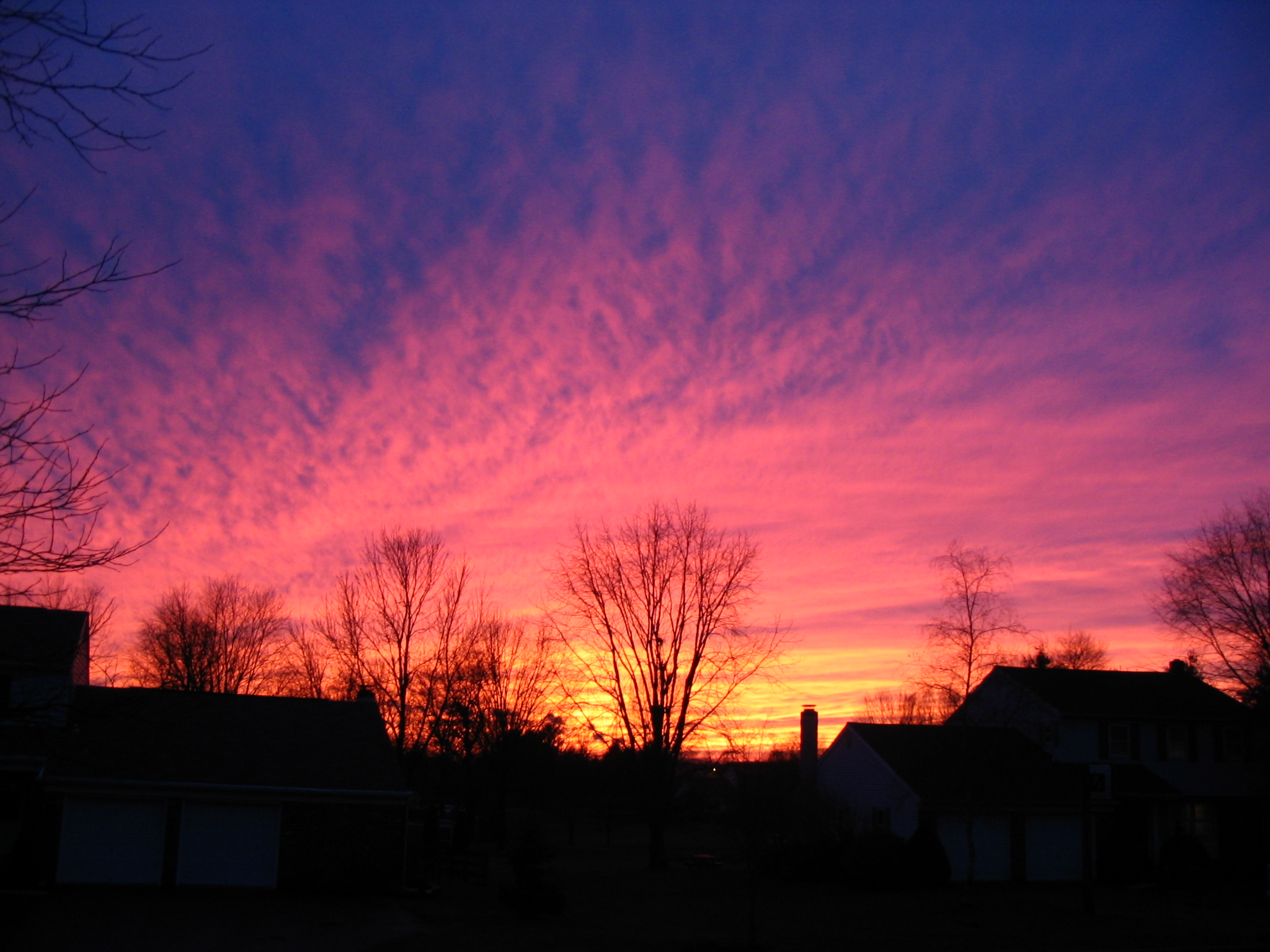 A photograph from Harleysville, Pennsylvania on 14 January 2005 of an amazing sunset. Photograph by Andrew Crouthamel.